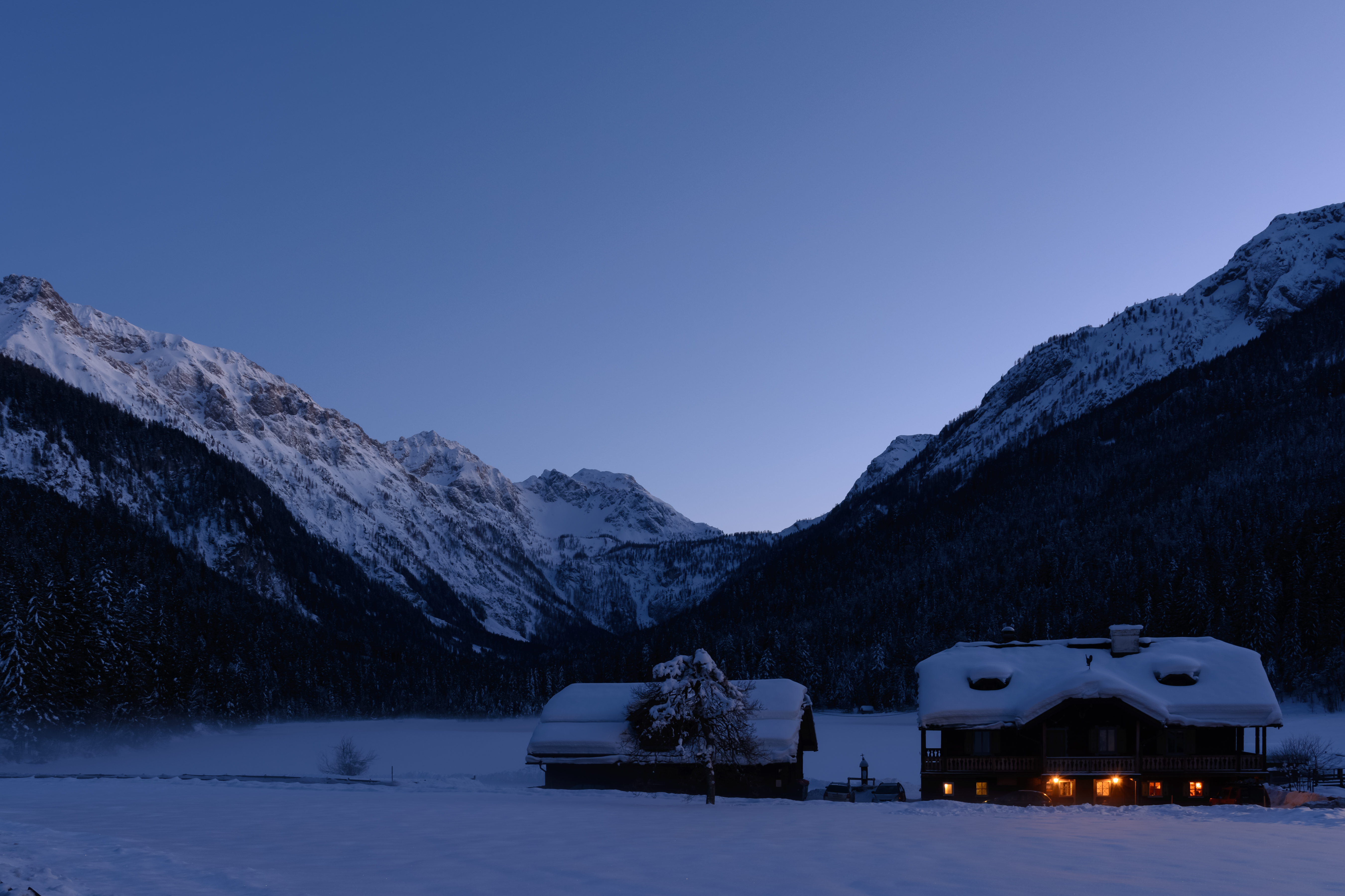 Frozen lake Jägersee near Kleinarl, federal state of Salzburg, Austria